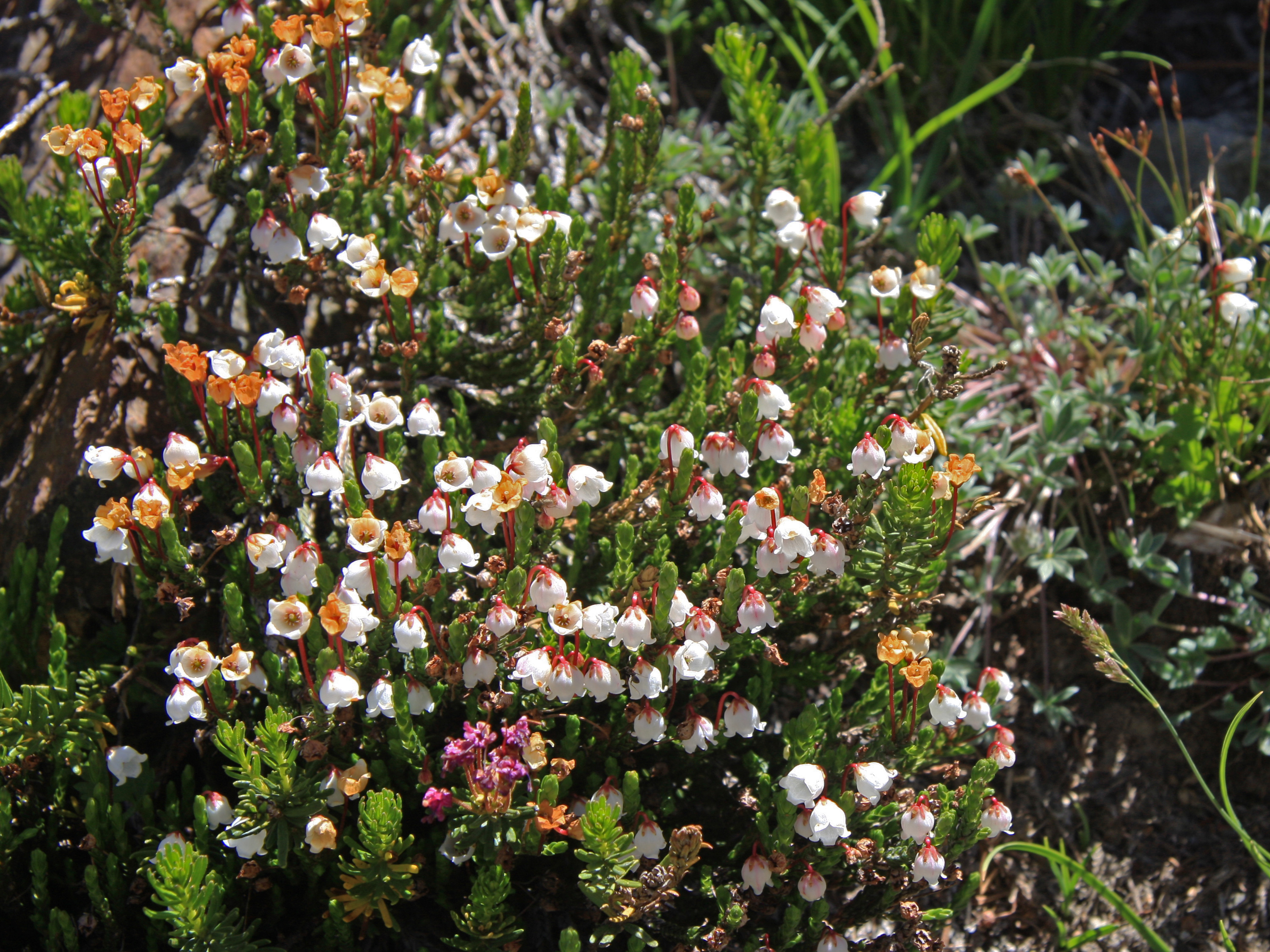 White heather (Cassiope mertensiana). Between Summit Pass and Summit Lake, Hoover Wilderness, Sierra Nevada, California.